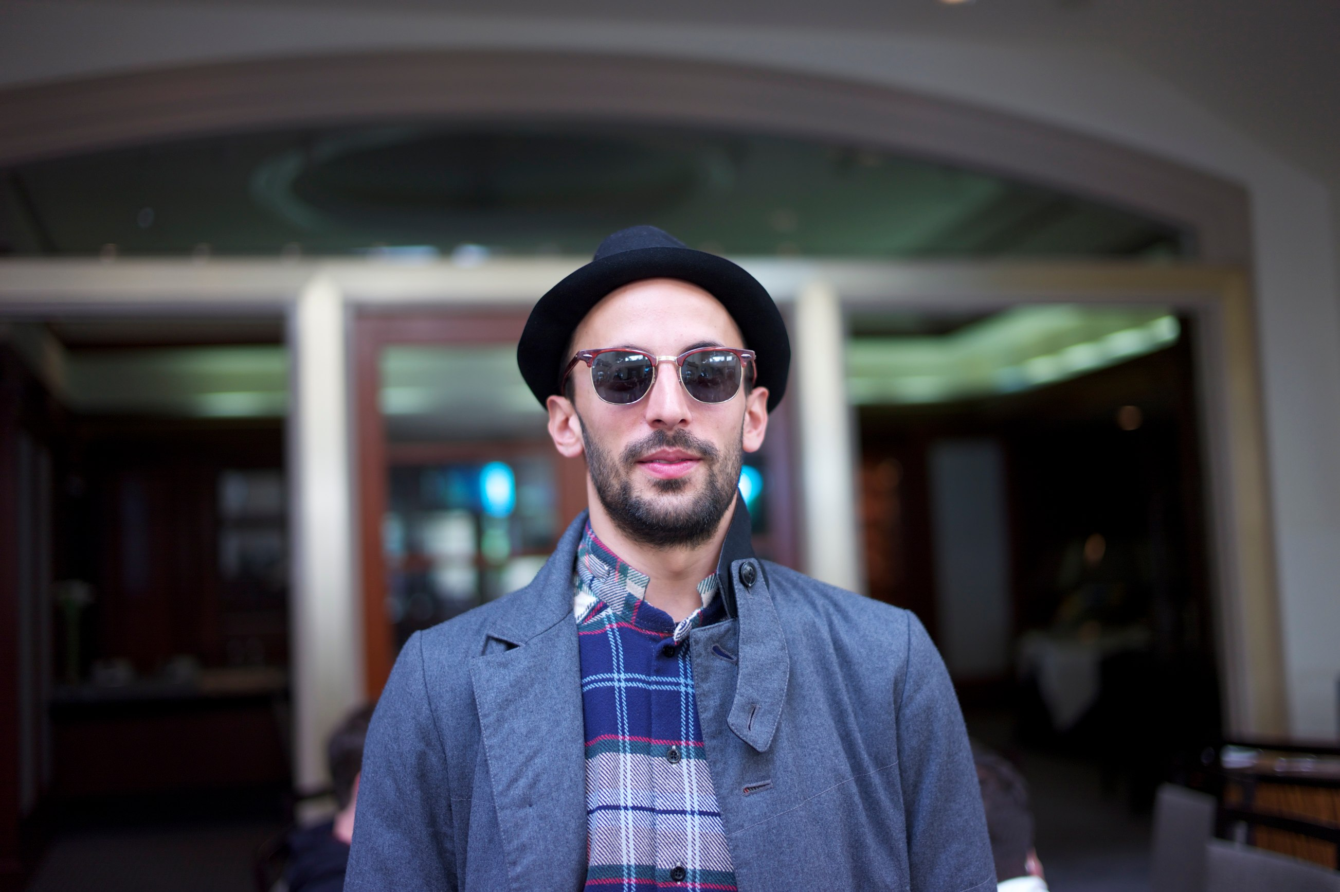 Winner of the 2011 TED Prize